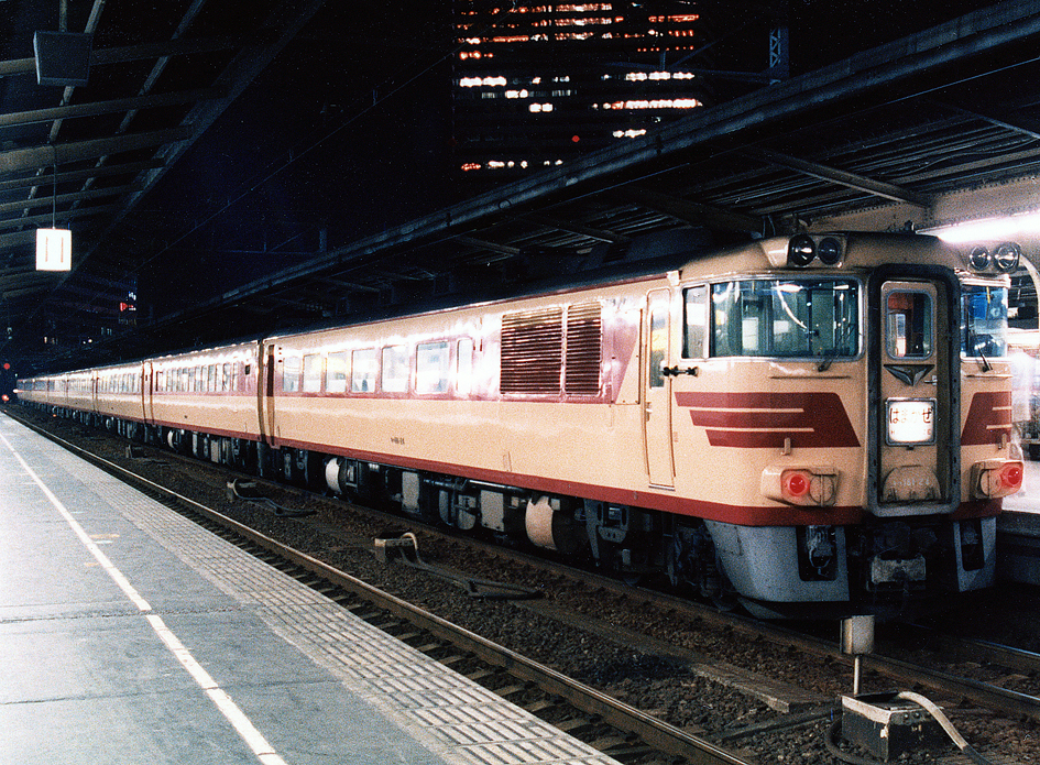 A JNR KiHa 181 series DMU at Osaka Station on a Hamakaze limited express service